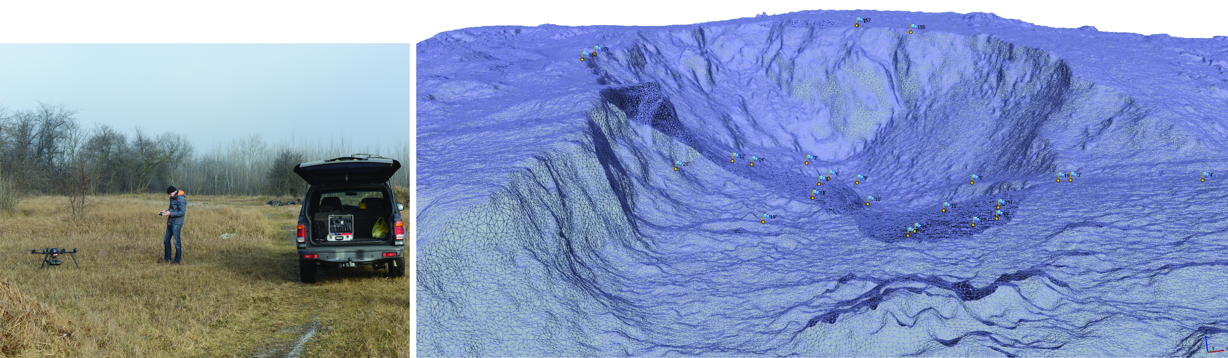 Mine photogrammetry with Interspect UAS B 3.1 octocopter